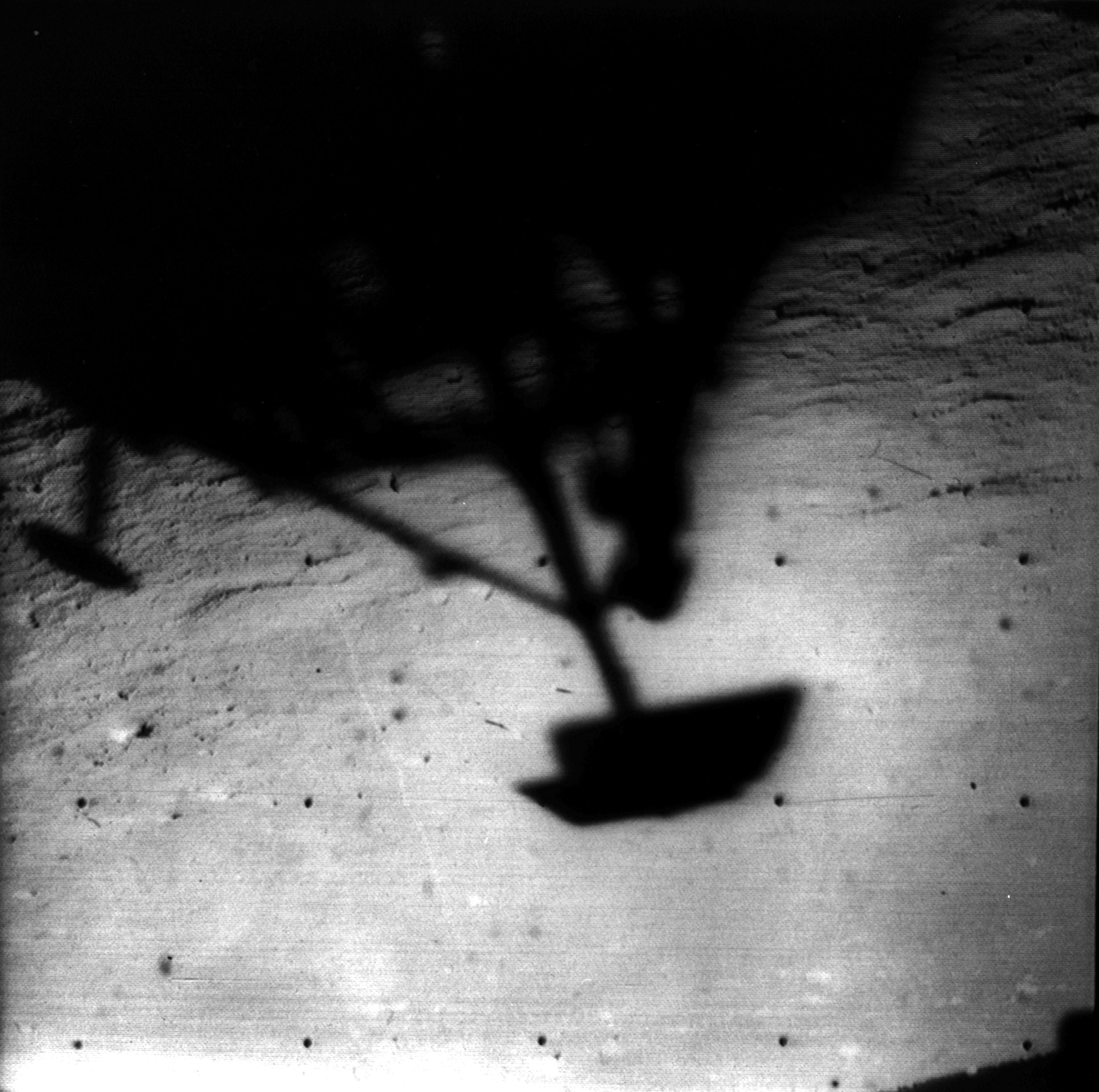 This image of Surveyor 1's shadow shows it against the lunar surface in the late lunar afternoon, with the horizon at the upper right.